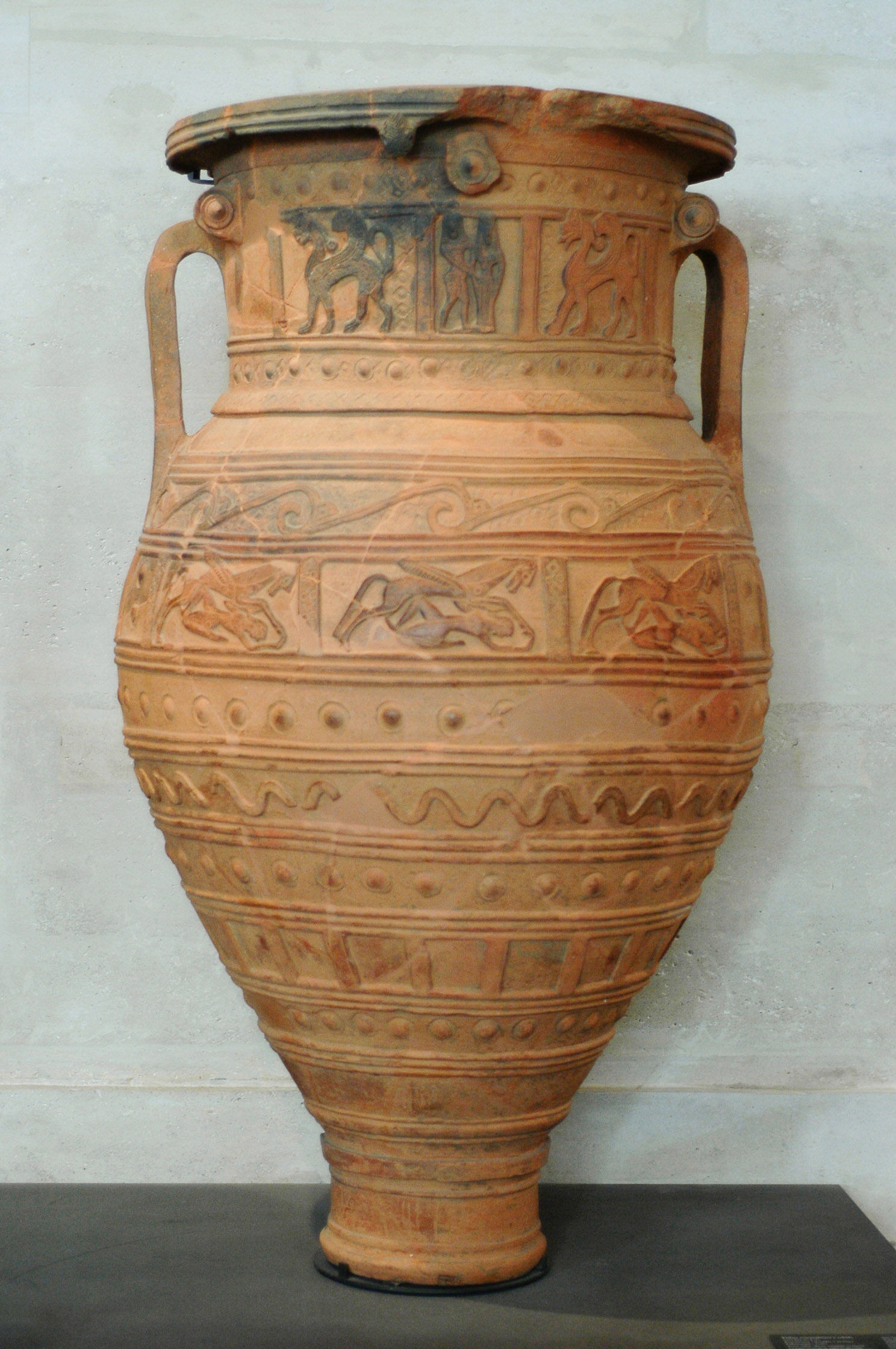 Orientalizing pithos. Found in Arcades (?), Crete, ca. 675 BC. Terracotta, stamped and incised decoration.